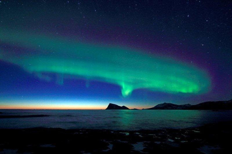 Image of Aurora Borealis, taken at Hillesøy island, Tromsø, Troms, Norway